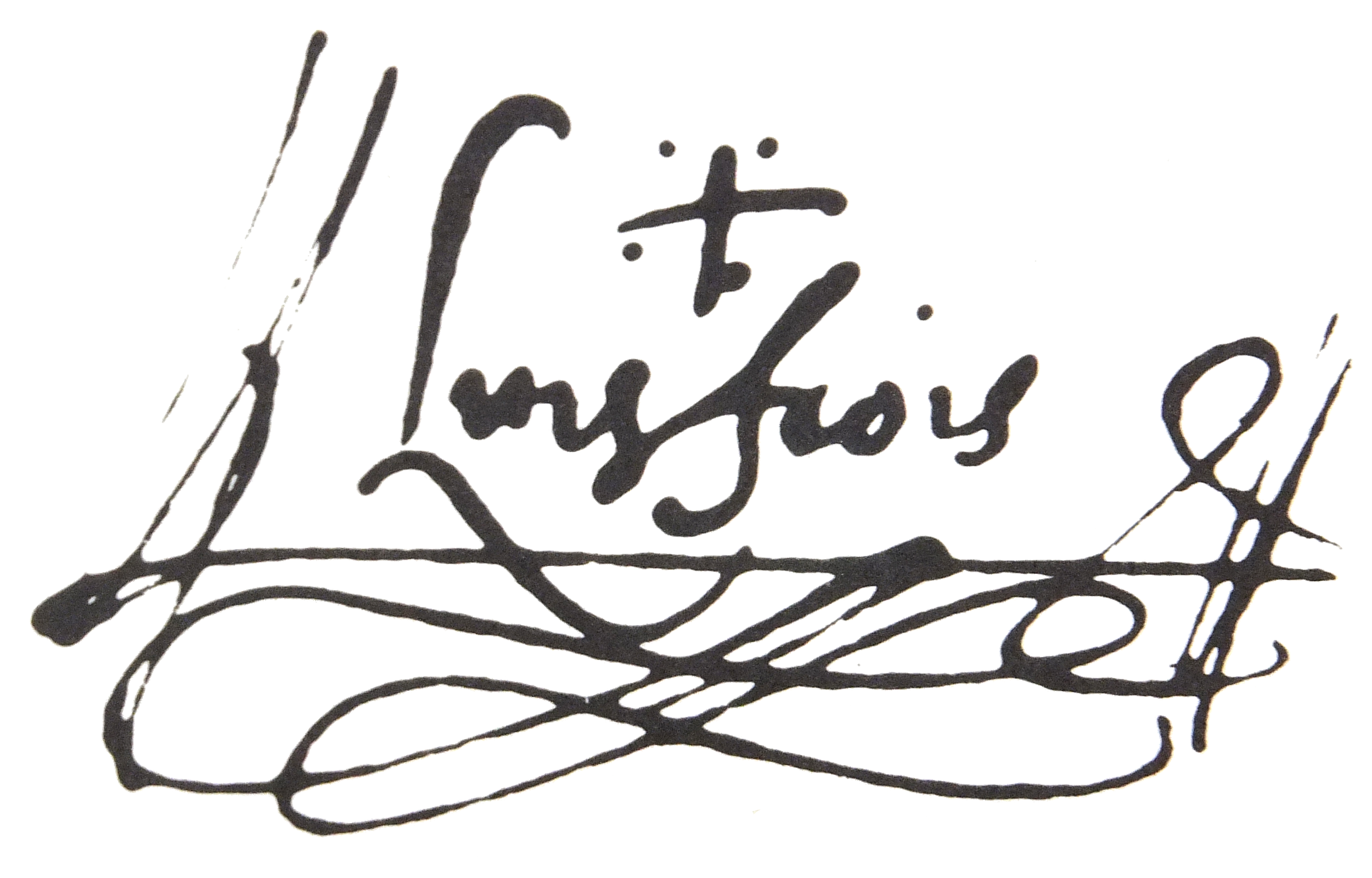 Signature of Luis Frois (1532-1597)